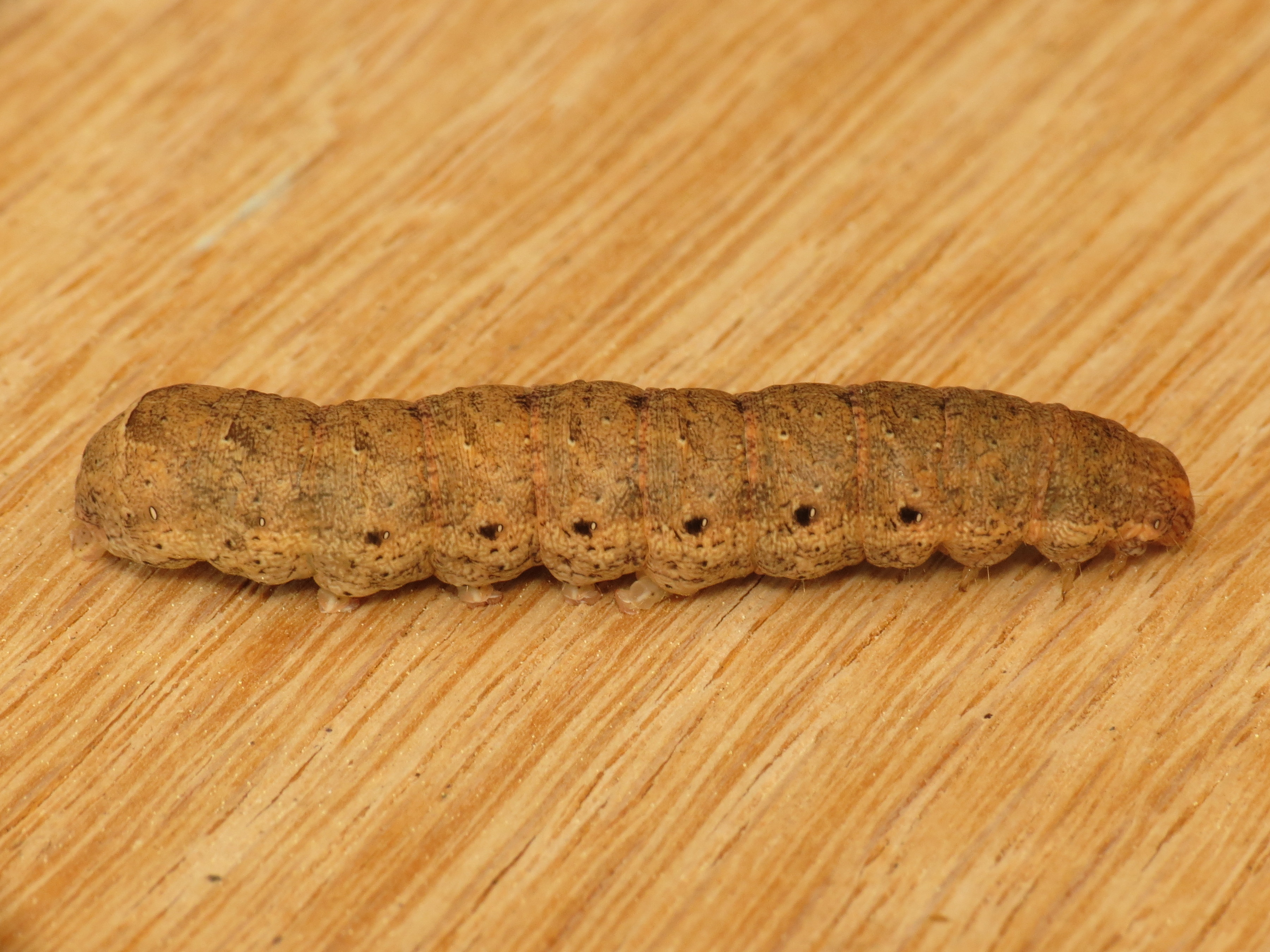 Noctua fimbriata (Schreber, 1759), Broad-bordered Yellow Underwing, larva, Søborg, Denmark, 26 April 2014